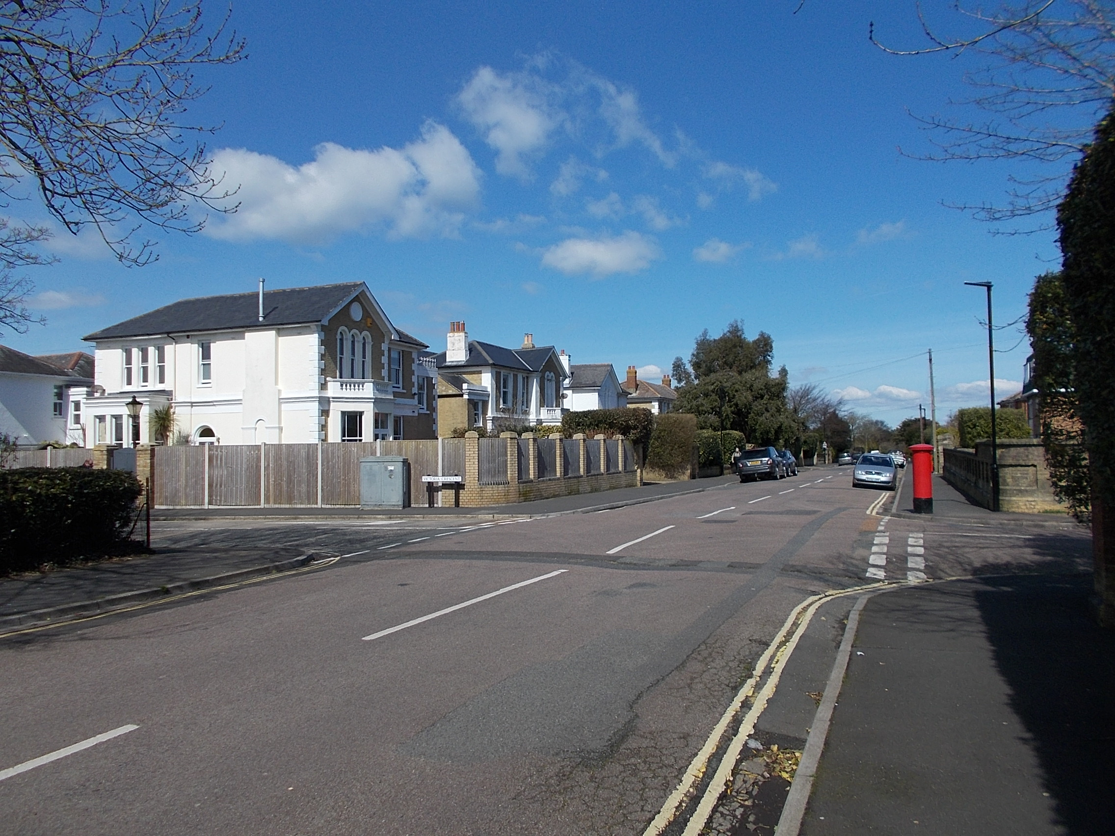 High Park Road, Elmfield, Ryde, Isle of Wight, UK